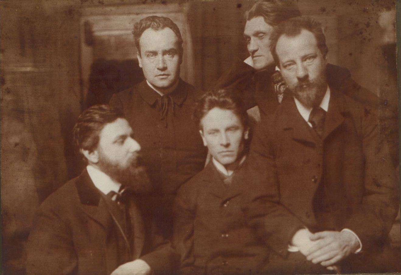 Group portrait with (from left to right): Karl Wolfskehl, Alfred Schuler, Ludwig Klages, Stefan George, Albert Verwey. Photo by Karl Bauer. Collection Amsterdam University Library [HS. XLI F 88] (1902)